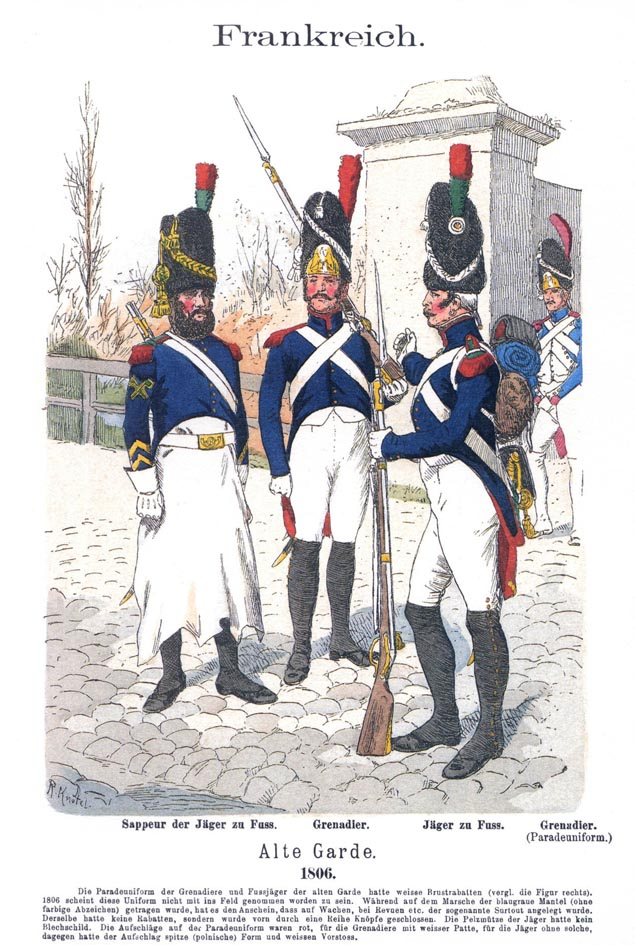 Frankreich: Alte Garde. Sappeur der Jäger zu Fuß. Grenadier. Jäger zu Fuß. Grenadier (Paradeuniform). 1806